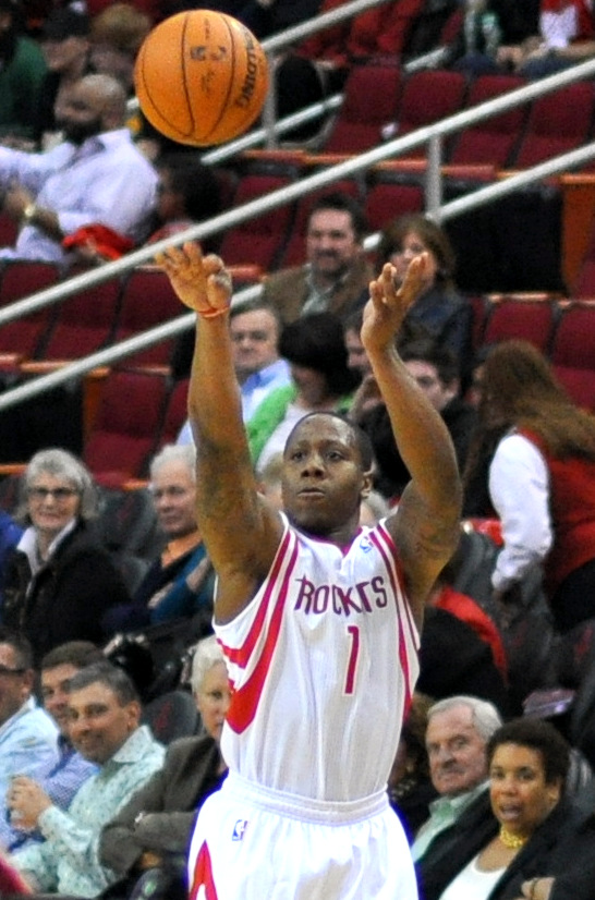 Isaiah Canaan of the Houston Rockets shoots the ball during an NBA basketball game against the Utah Jazz on March 17, 2014, at the Toyota Center in Houston, Texas.